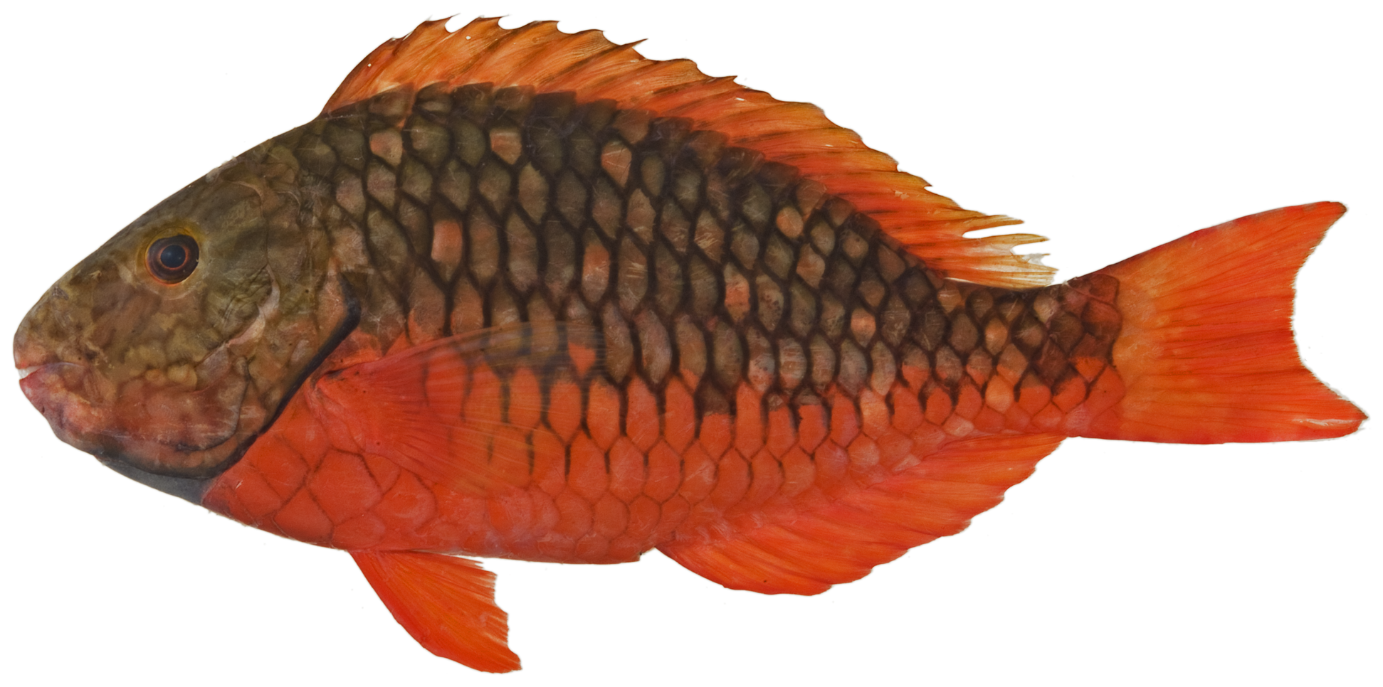 Sparisoma viride (Bonnaterre, 1788)—stoplight parrotfish, 222.9 mm SL, initial female color phase. Photo by JT Williams.